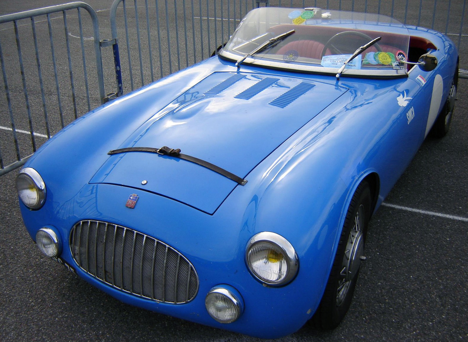 A unique Gordini barquette based on a Simca 8, built in Bordeaux in 1951 for Simca-dealer Lucien Barthe. Seen at the Autodrome de Linas-Montlhéry, 2009